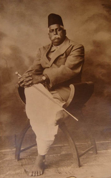 Keshav Baliram Hedgewar